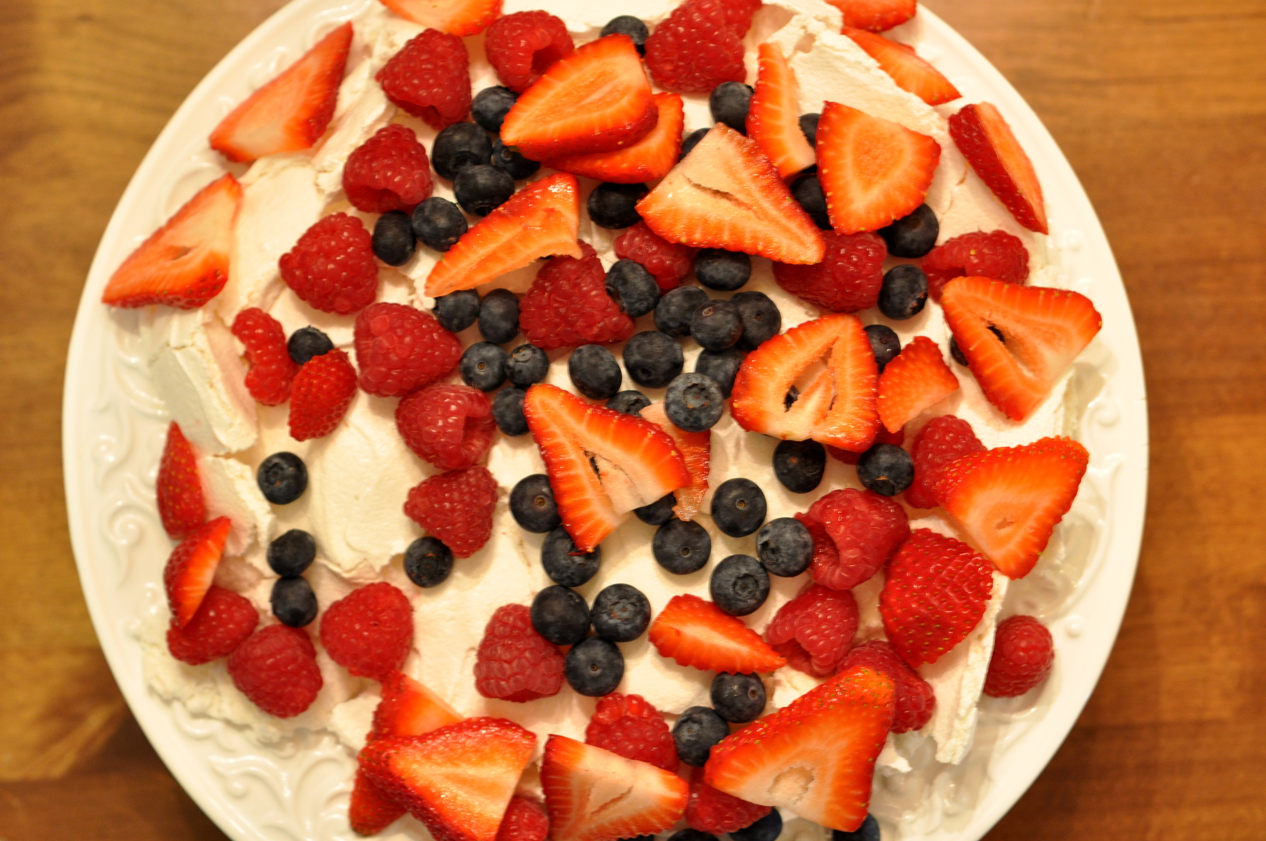 Mixed Berry Pavlova